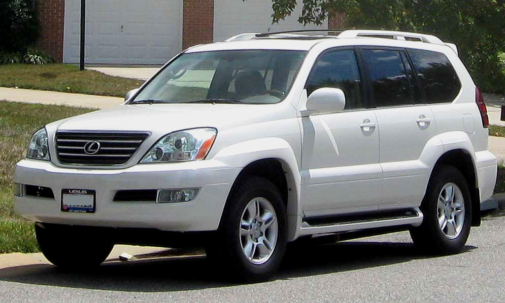 2003-2007 Lexus GX470 photographed in USA.